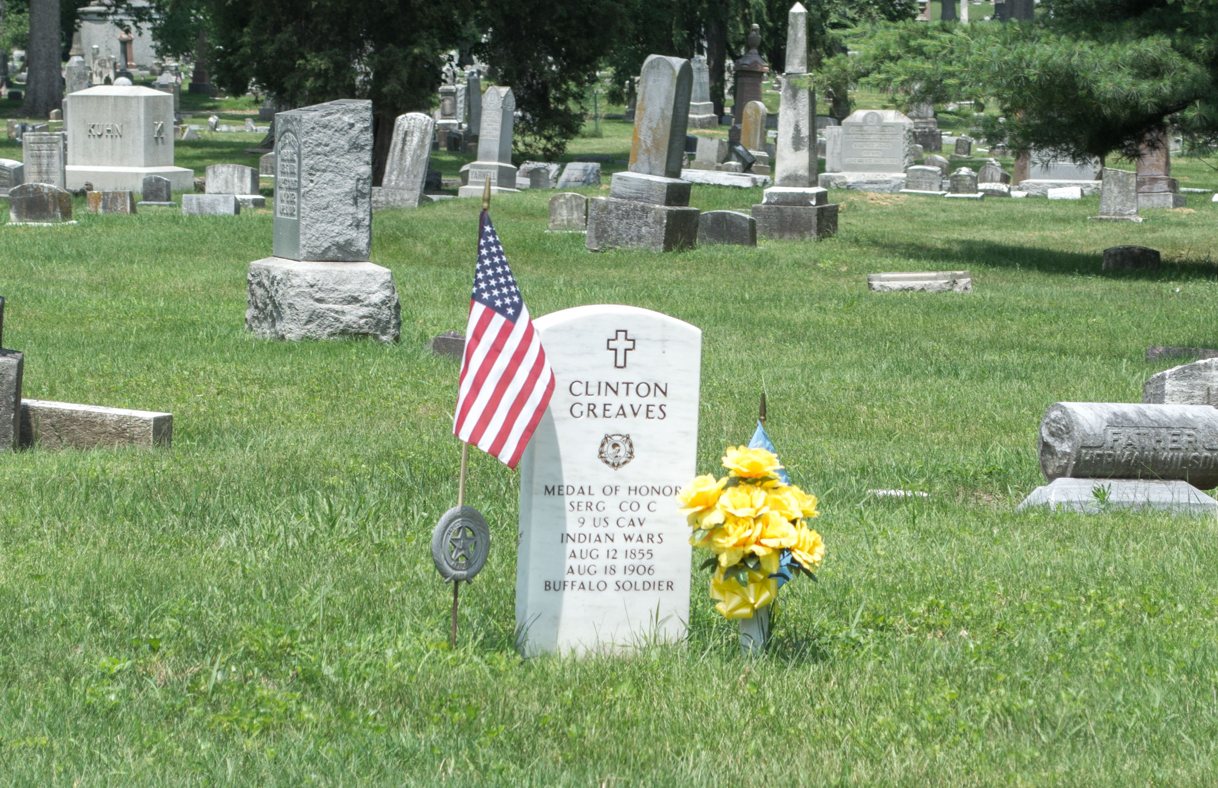 Grave of Clinton Greaves at Green Lawn Cemetery in Columbus, Ohio, in the United States.